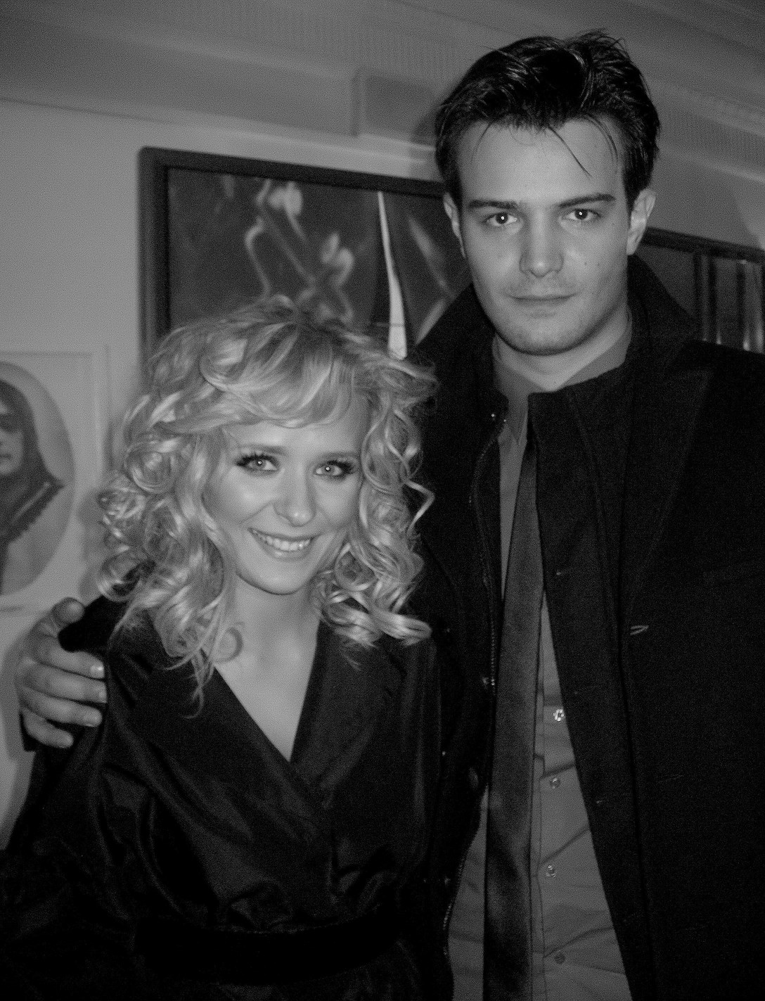 Zajac & Krawczyk (2009)